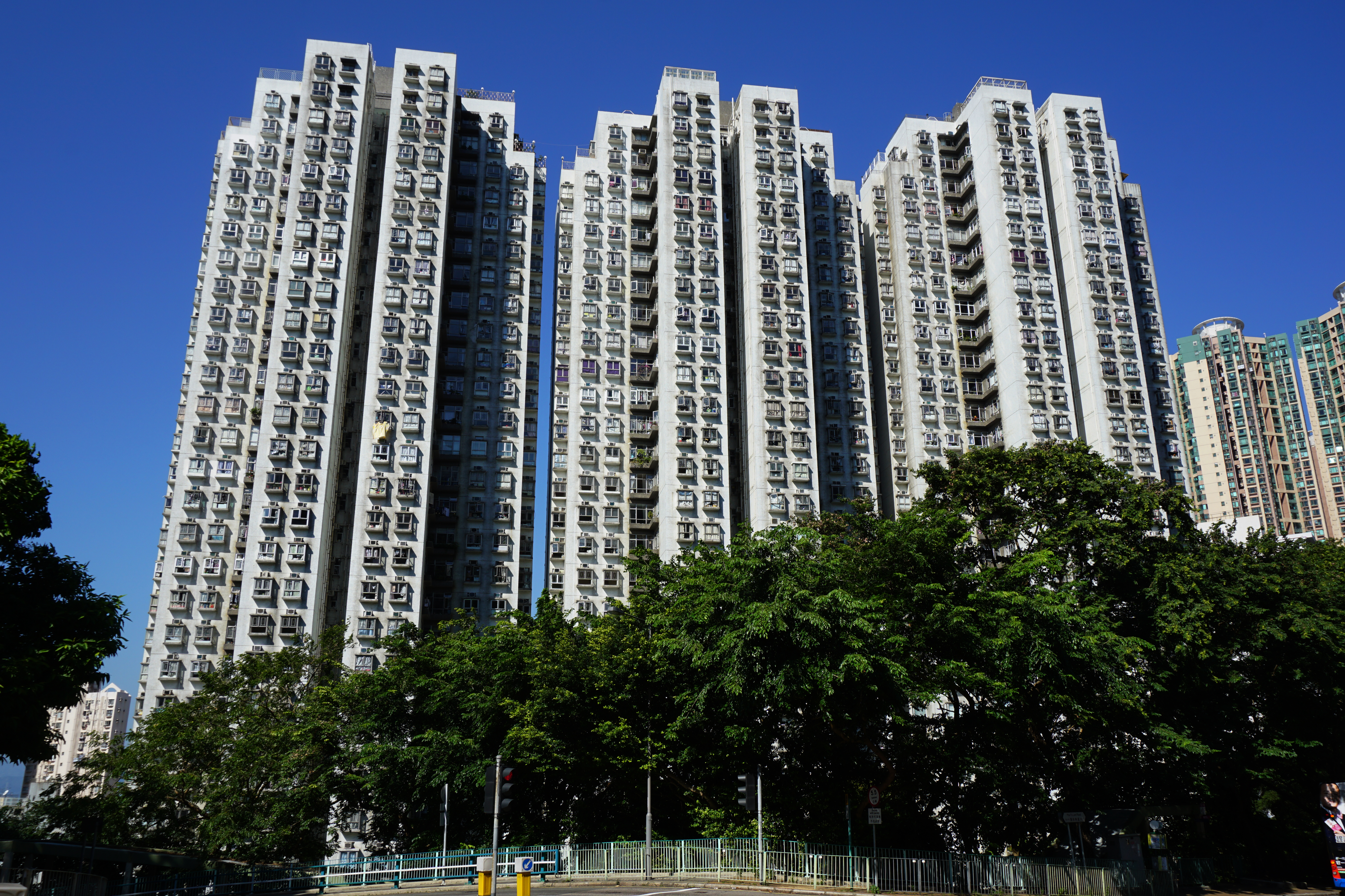 Academic Terrace in Shek Tong Tsui, Hong Kong.